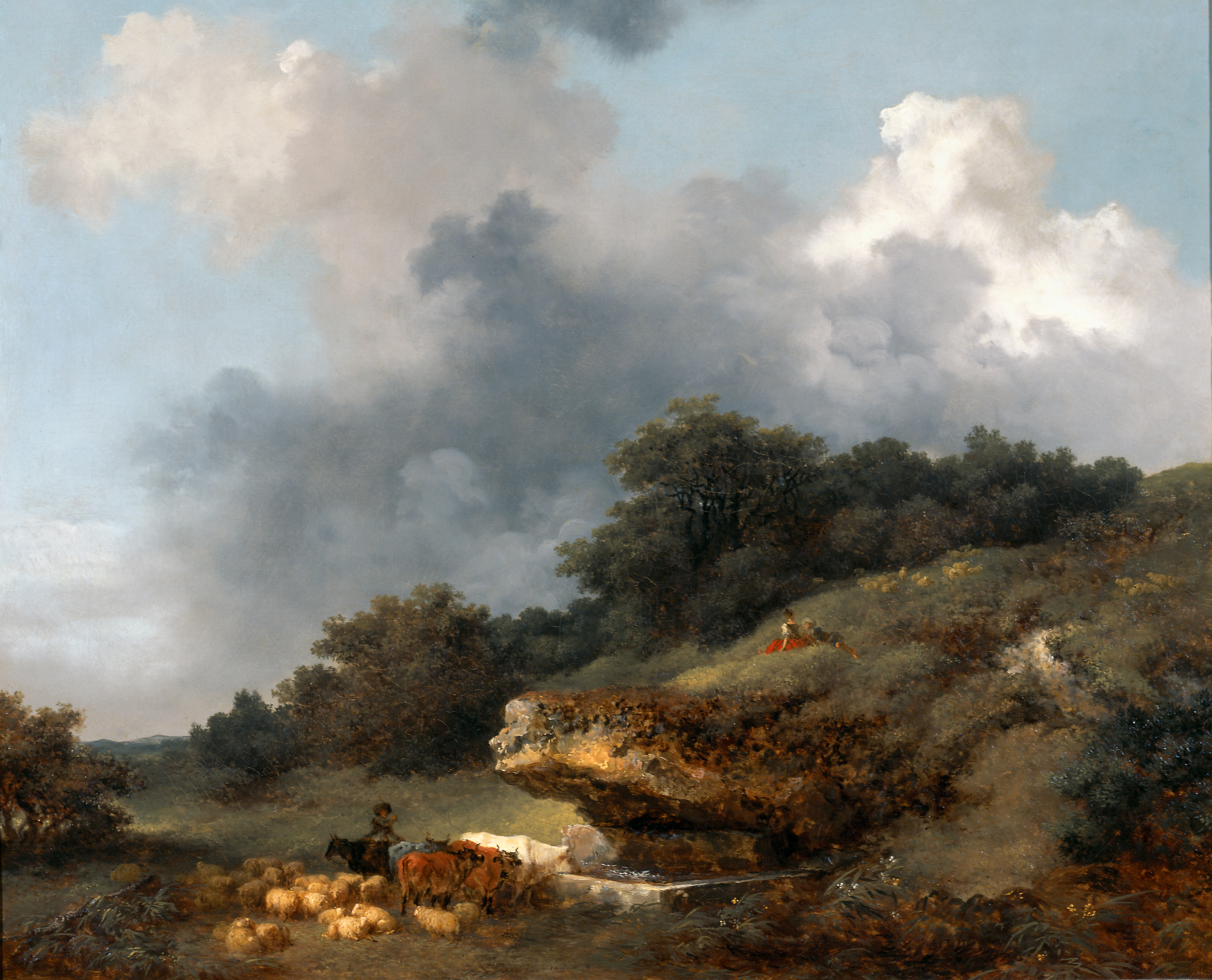 The troughlabel QS:Len,"The trough" label QS:Lde,"der Trog" label QS:Lfr,"L'abreuvoir"